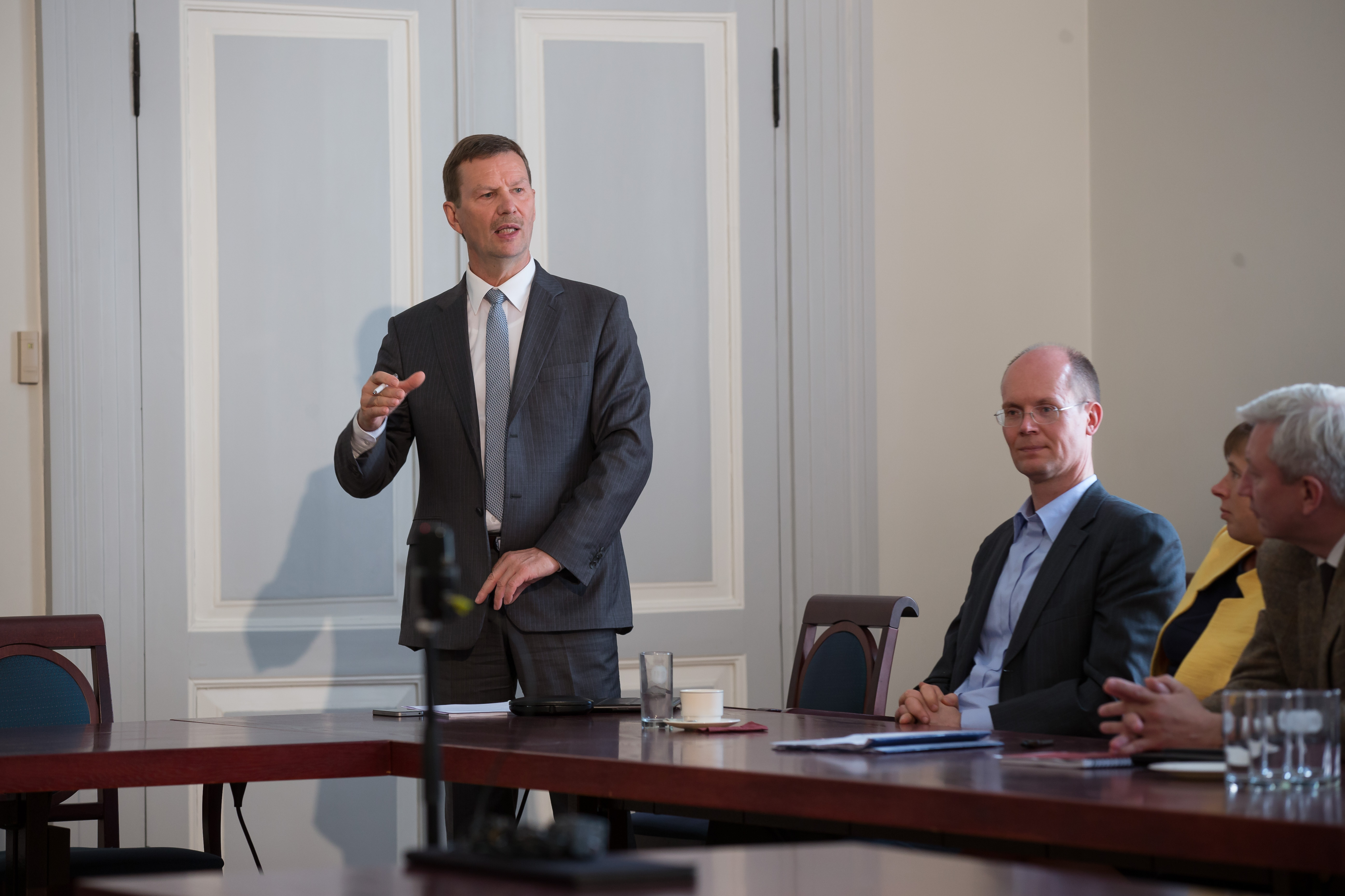 Council of the University of Tartu seminar "Risk management and developing of entrepreneurship inside the university". Volli Kalm.